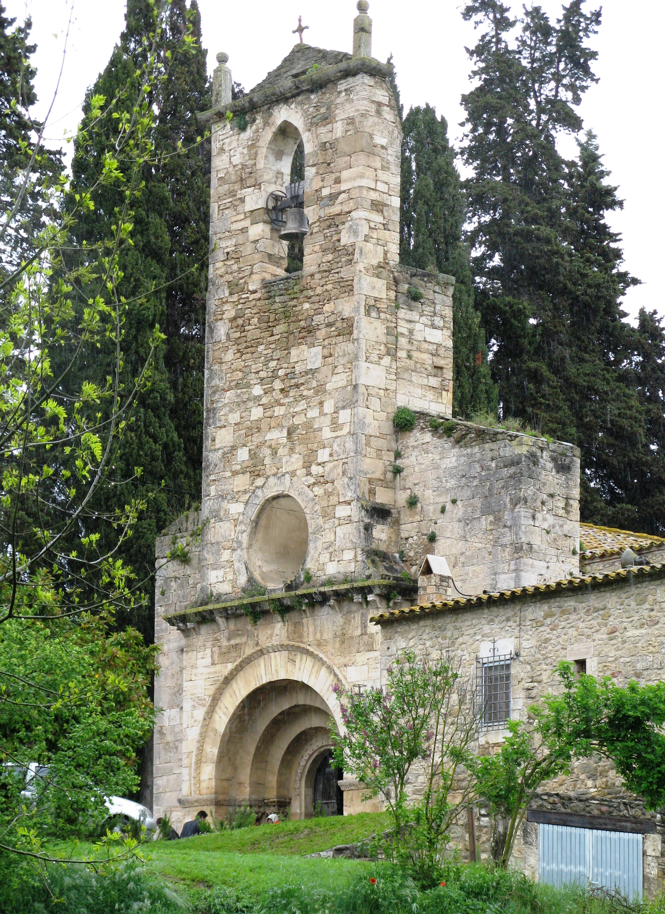 Romanesque church Santa Maria de Porqueres (12th century)